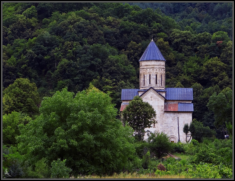 Barakoni Church